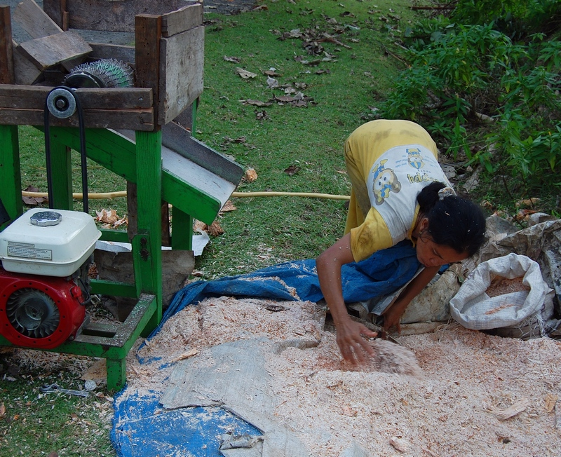 Crushed pith of sago palm (Metroxylon sagu); Simeulue, IndonesiaBahasa Indonesia: Empulur sagu telah menjadi serbuk; Teupah Selatan, Simeulue